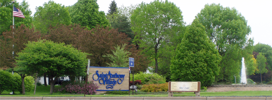 Park and sign at the south end of St. Anthony Village, 2006